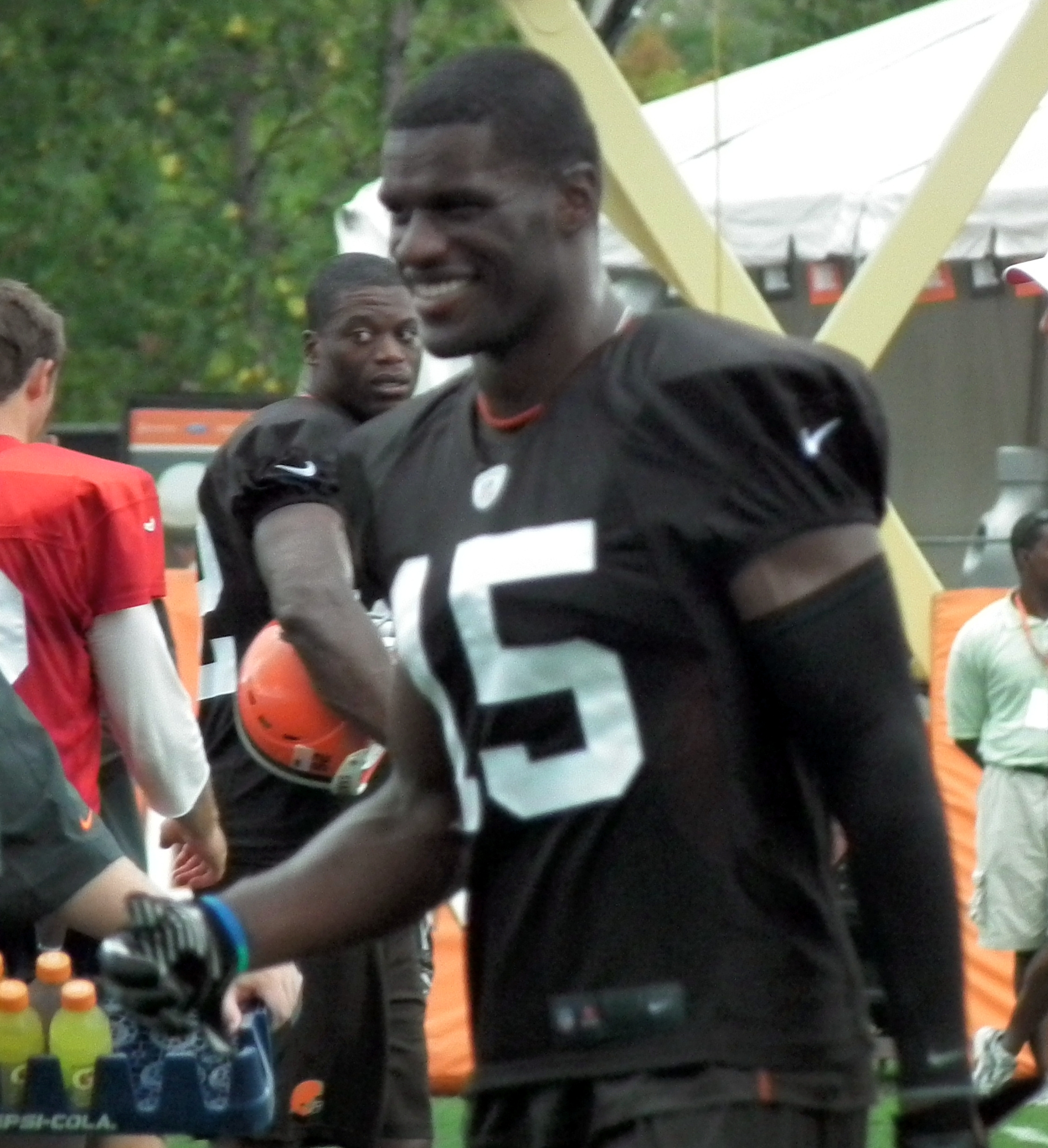 Greg Little at Browns training camp, 2012